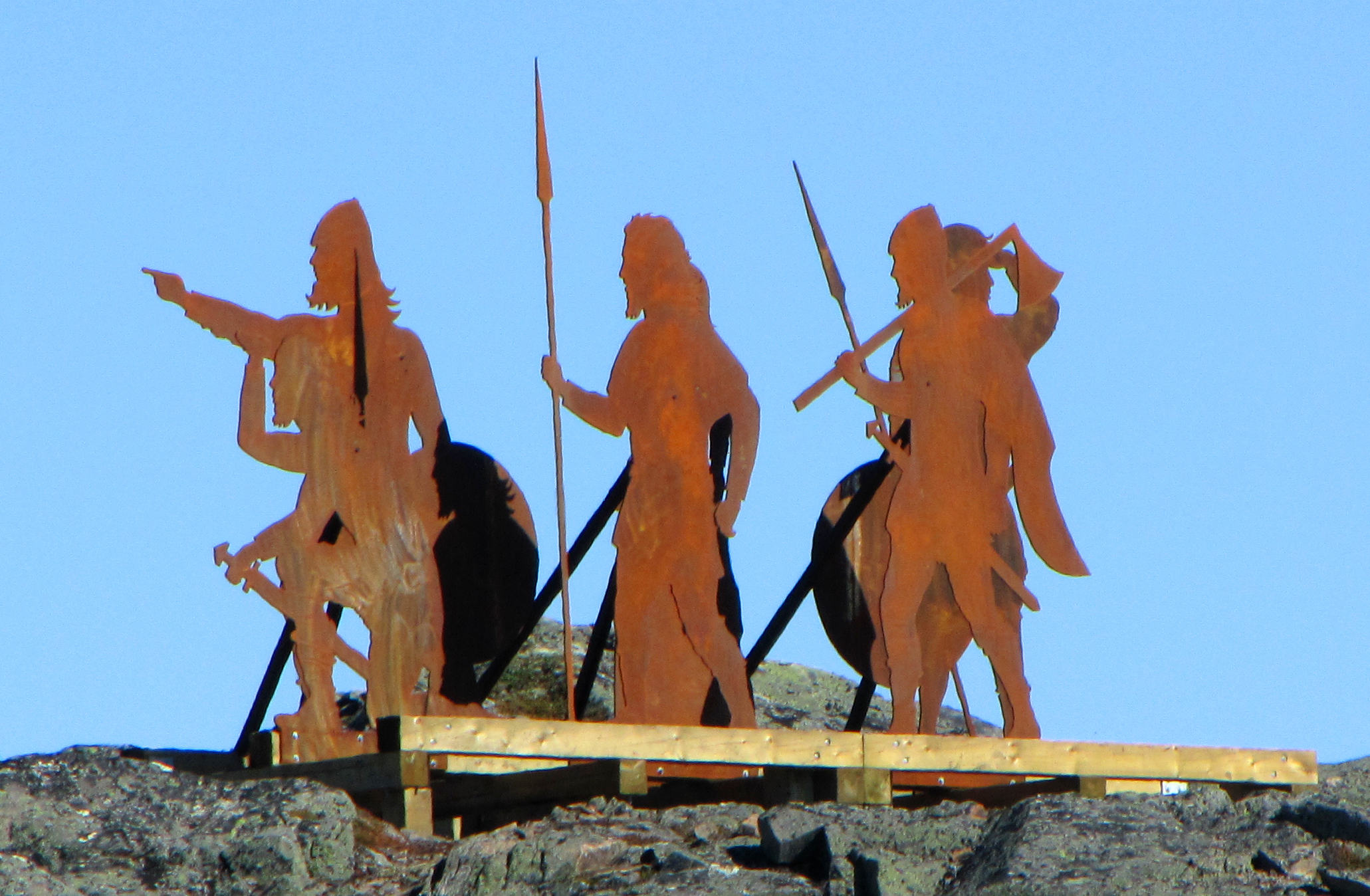 Norse statues installed above L'Anse aux Meadows historical site, Newfoundland and Labrador, design: Amélie Déry, illustration: Karen Van Niekerk